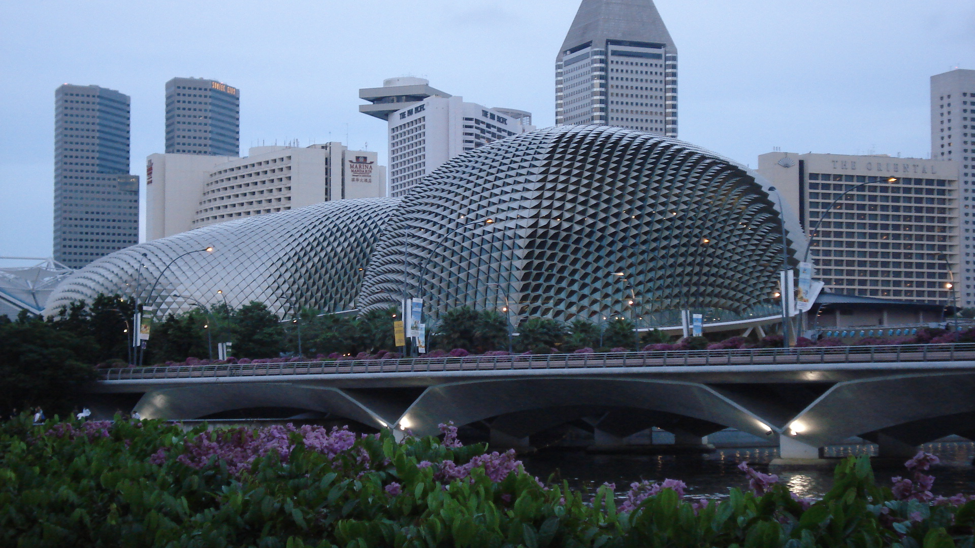 Singapore's Marina Square area. Photo by User:Vijayaraghavan2k5